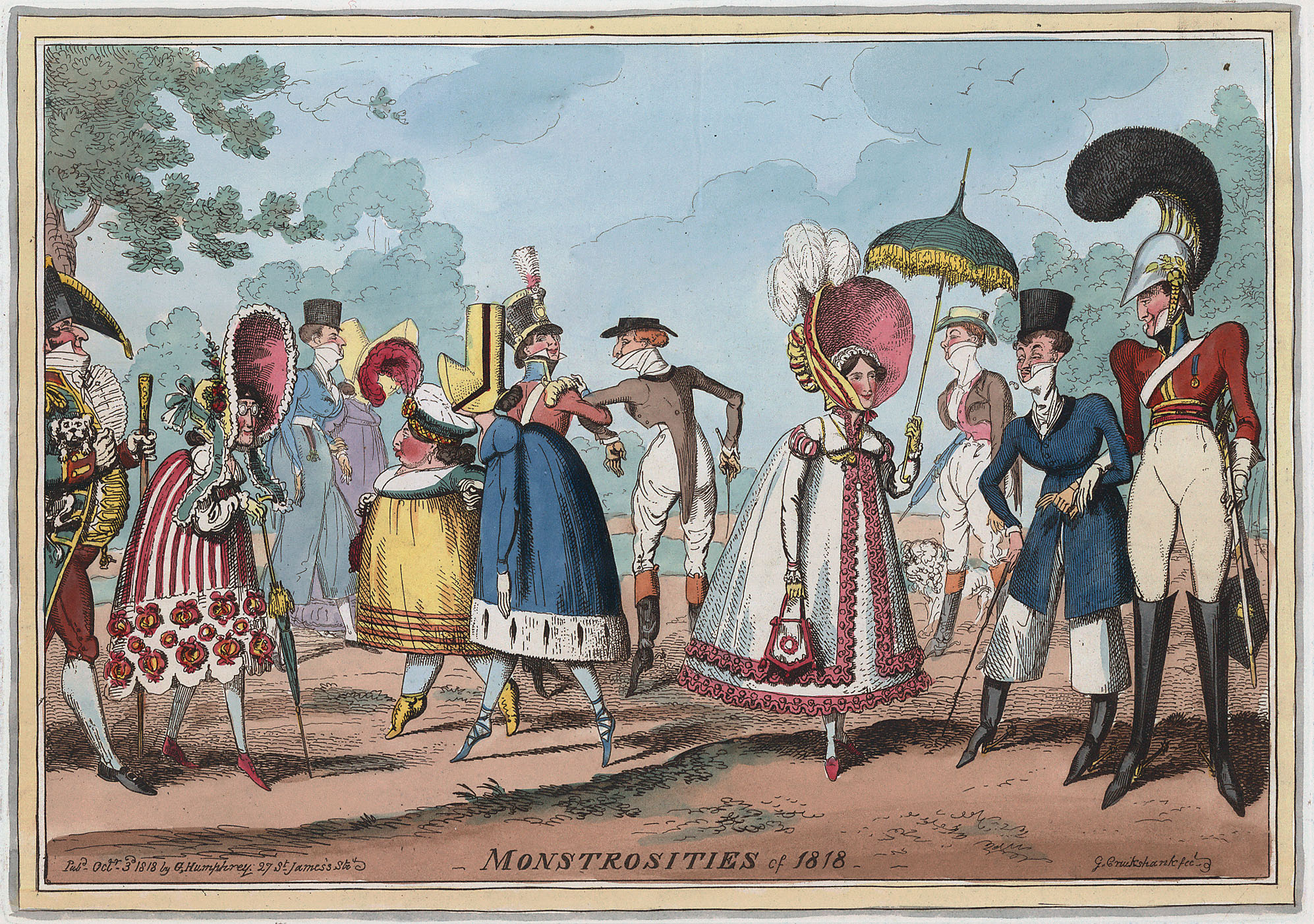 "Monstrosities of 1818", an October 3rd 1818 caricature by George Cruikshank exaggerating the latest style trends. For women, this was a trend towards a conical silhouette (as opposed to the narrow clinging skirts of the ca. 1797-1815 period) and large bonnets -- and for men, extremely tall cravats at the neck, narrow tails of the tailcoats, and the wearing of male corsets(?). By an old caricaturists' trick, the women's skirts are shown shorter than they would have been in real life. The men walking fully arm-in-arm was reasonably common and socially acceptable at the time. Edited from image on the Library of Congress website. The raw TIFF has now been uploaded to Wikimedia Commons as File:Monstrosities of 1818.tif. Bibliographic information found on the LoC site: TITLE: Monstrosities of 1818 / G. Cruikshank fect. CALL NUMBER: PC 3 - 1818--Monstrosities of 1818 (B size) [P&P] REPRODUCTION NUMBER: LC-DIG-ppmsca-07806 (digital file from original print) No known restrictions on publication. SUMMARY: Print shows unusual clothing styles in men's and women's fashions, particularly dresses and hats. MEDIUM: 1 print : etching, hand-colored. CREATED/PUBLISHED: [London] : Pubd. by G. Humphrey, 27 St. James's Strt., 1818 Octr. 3d. CREATOR: Cruikshank, George, 1792-1878, artist. RELATED NAMES: Humphrey, G., fl. ca. 1820, publisher. NOTES: Title from item. Forms part of: British Cartoon Collection (Library of Congress). SUBJECTS: Clothing & dress--England--1810-1820. FORMAT: Satires (Visual works) British 1810-1820. Etchings British Hand-colored 1810-1820. PART OF: British Cartoon Collection (Library of Congress) REPOSITORY: Library of Congress Prints and Photographs Division Washington, D.C. 20540 USA DIGITAL ID: (digital file from original print) ppmsca 07806 CARD #: 2005676989